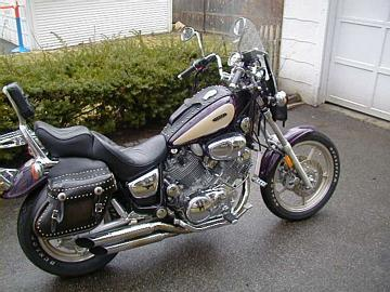 1994 Yamaha Virago 1100 (author M. Riordan)